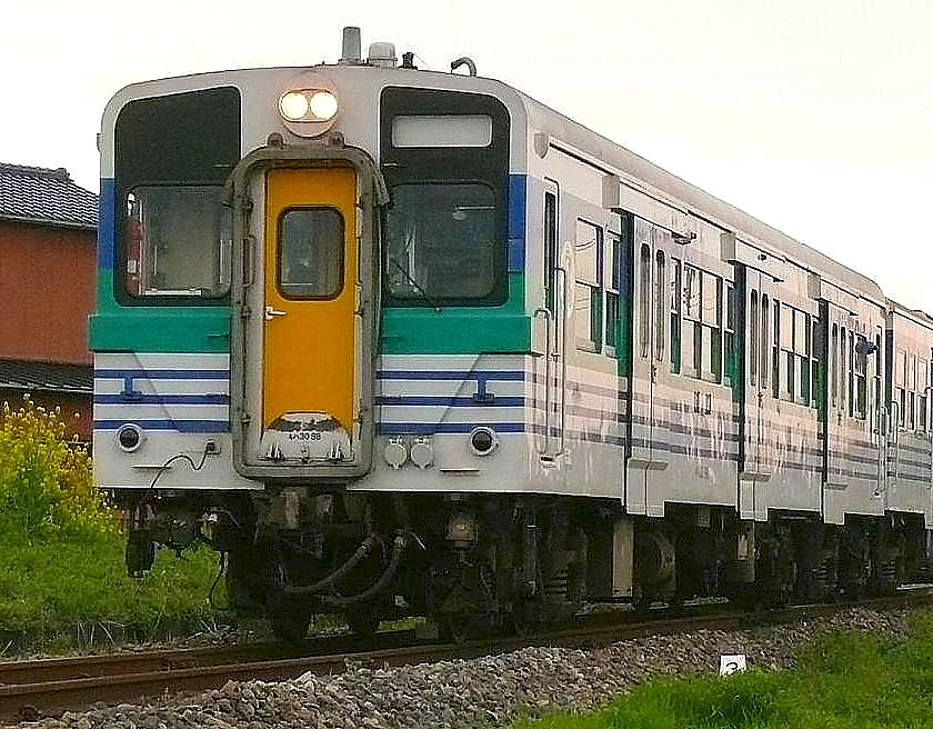 East Japan Railway Type Kiha30 Kururi Line(Japan).